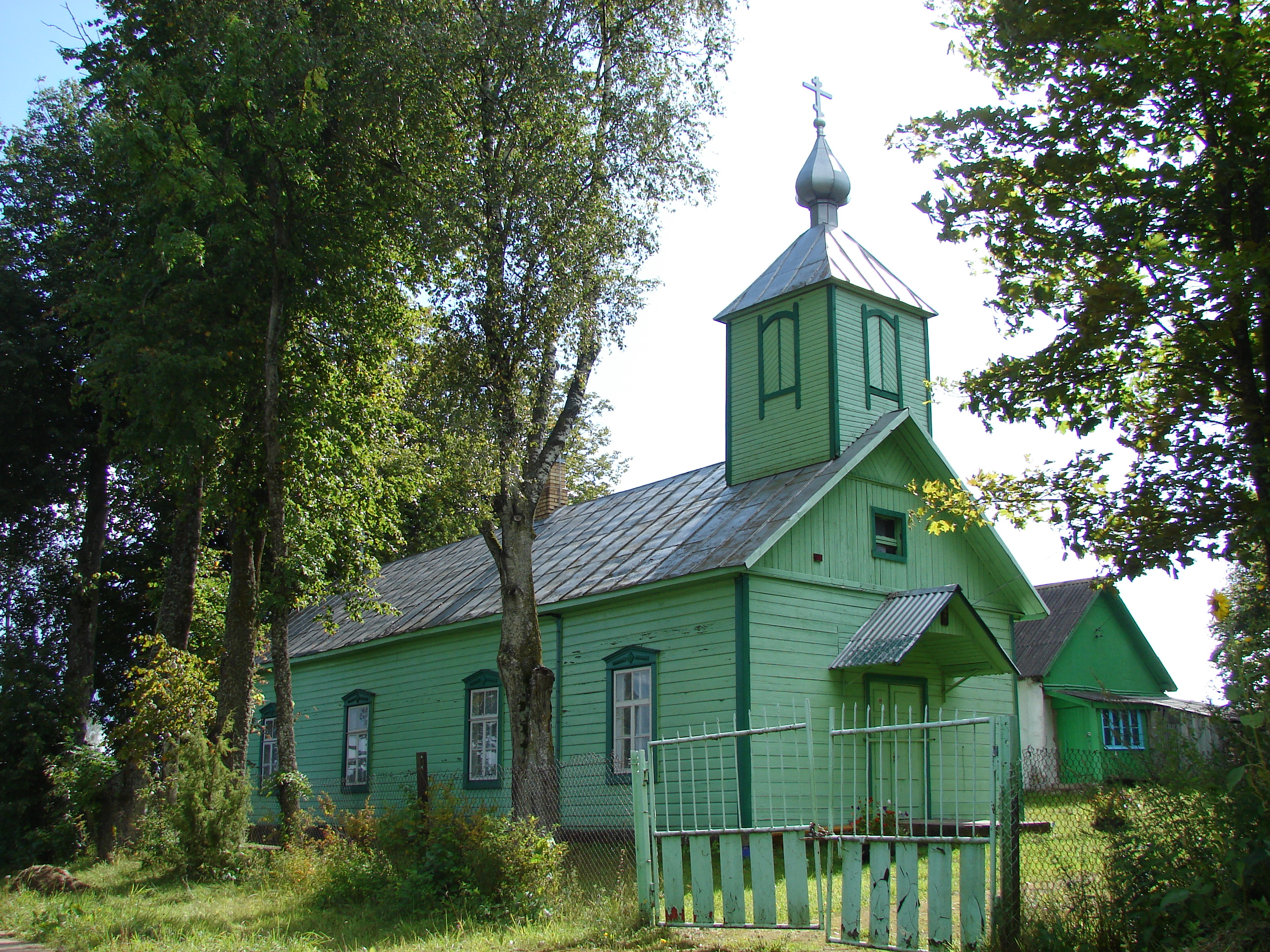 Uļjanova Old Believers Church